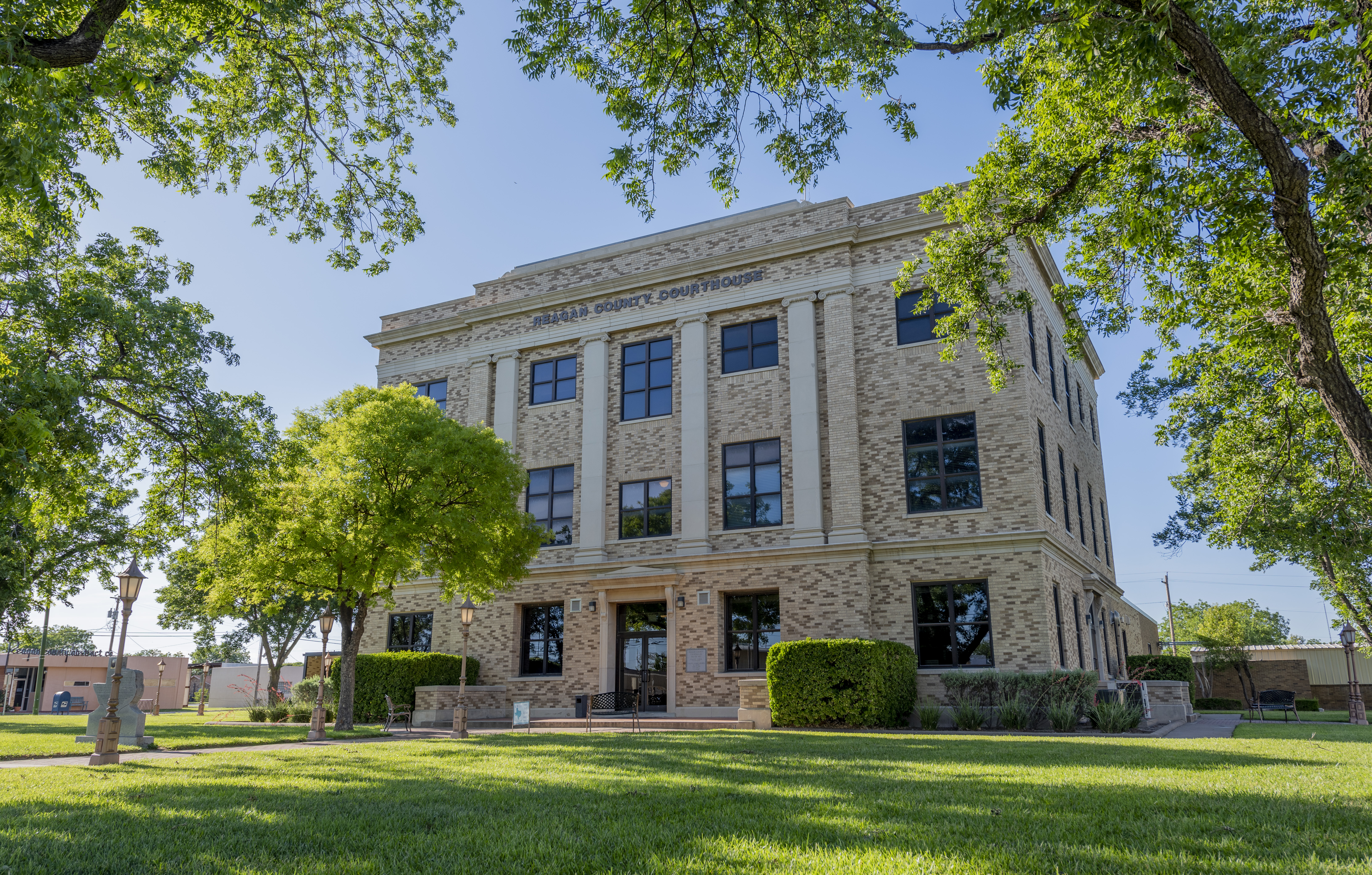 Image of the Reagan County courthouse located in Big Lake, Texas. Taken in May 2020.